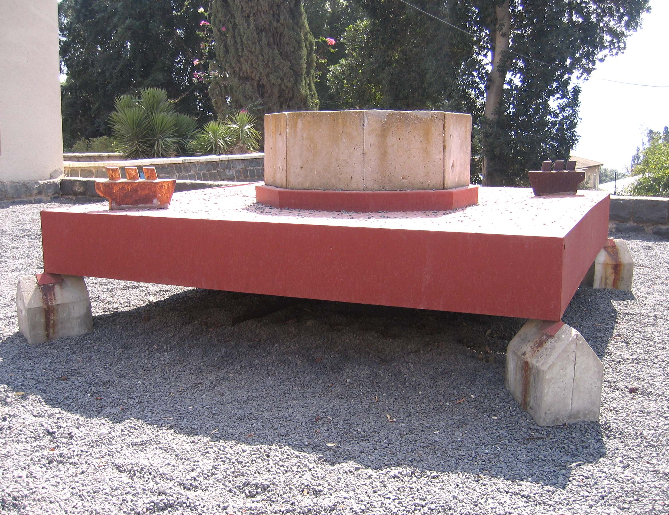 From Astir to Waadi Salka (1994) by Dov Heller, Museum of Art, Ein Harod.